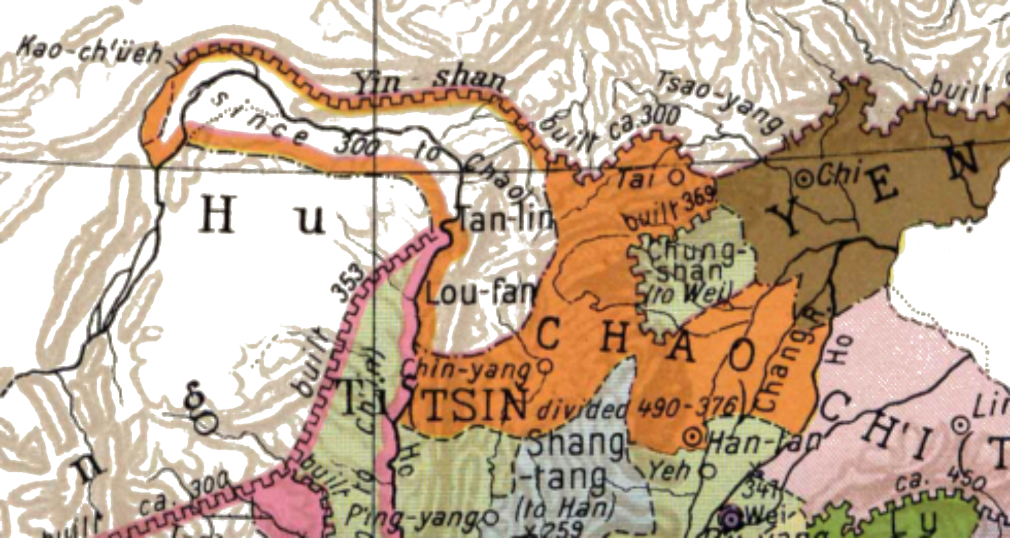 A map of Zhao during the Warring States Period of Chinese history, including its "long wall" and the territory it added during the Wuling King's expeditions against the Loufan and Linhu in 306 and 304 BC.